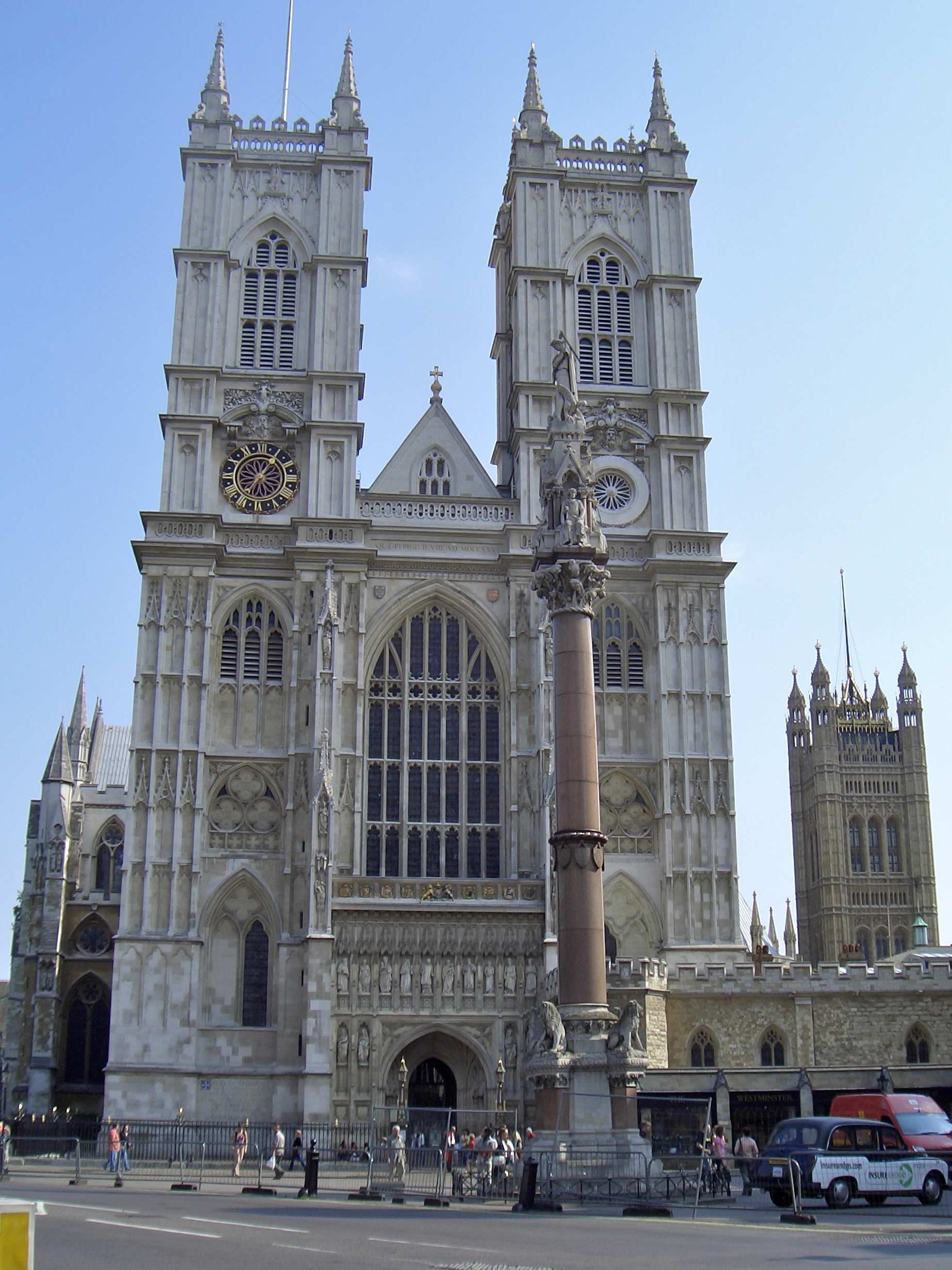 Westminster Abbey, London.